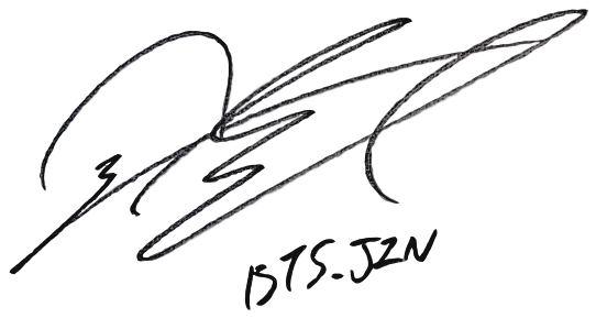 Signature of Kim Seokjin